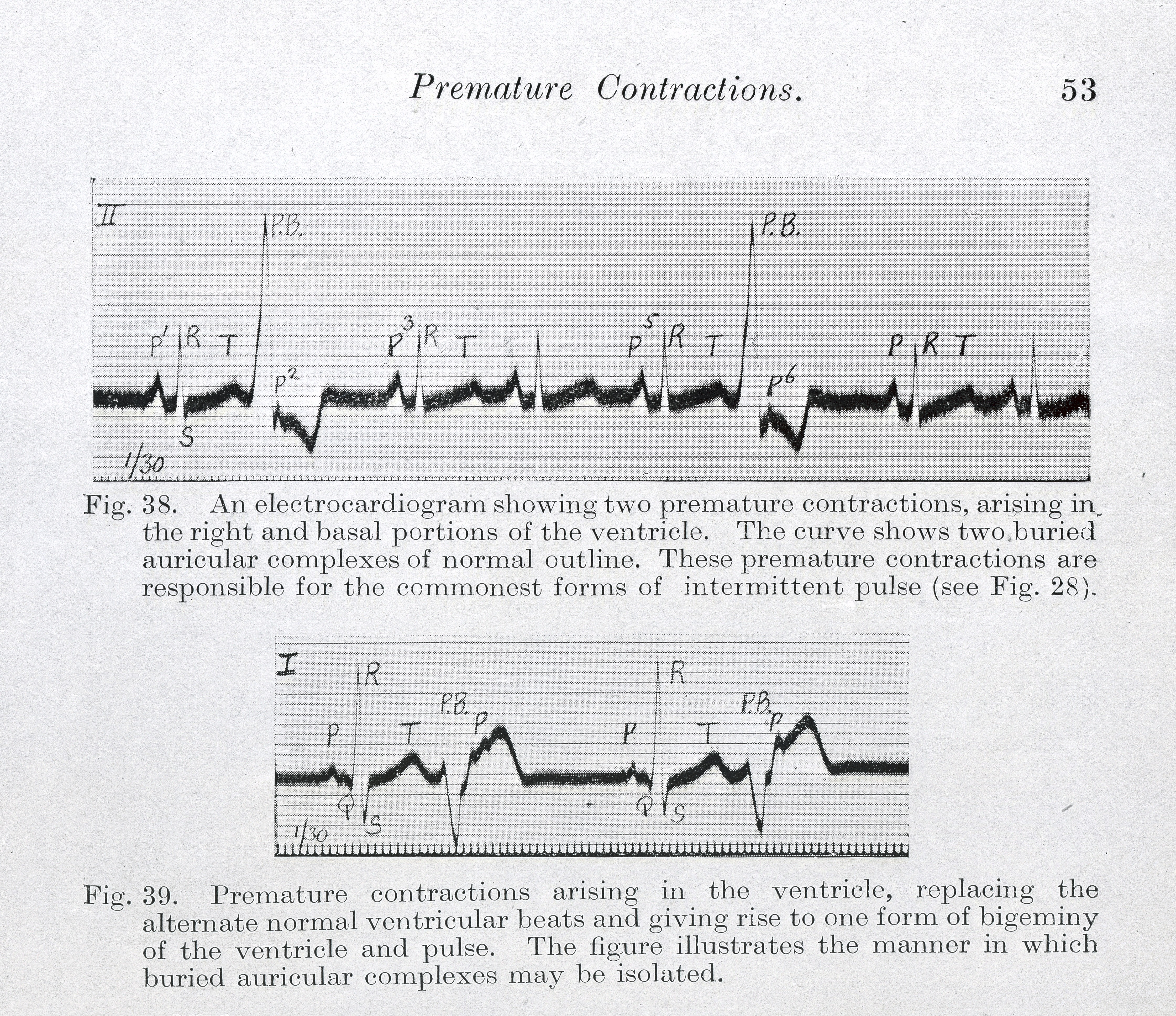 An electrocardiogram showing two premature contractions arising in the right and basal portions of the ventricule. The curve shows two buried auricular complexes of normal outline. These premature contractions are responsible for the commonest forms of intermittent pulse. General Collections Keywords: Lewis, Sir Thomas